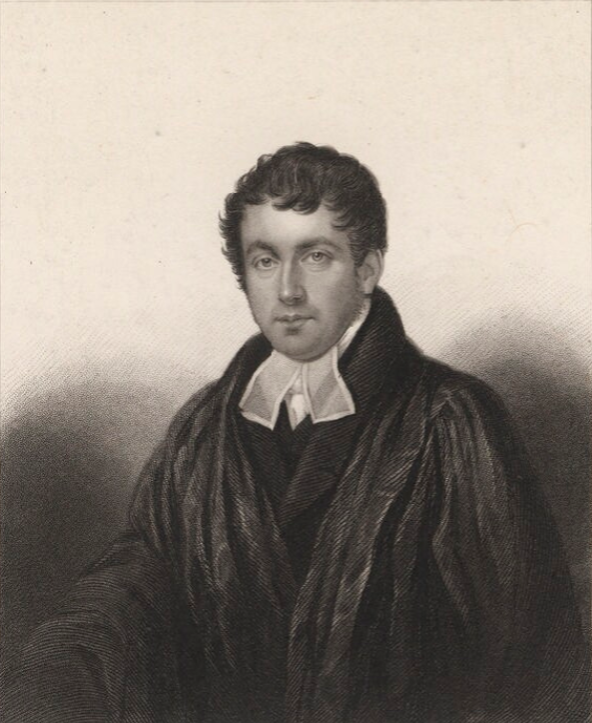 Portrait of John Edward Nassau Molesworth (1790–1877), English cleric, vicar of Rochdale from 1839.